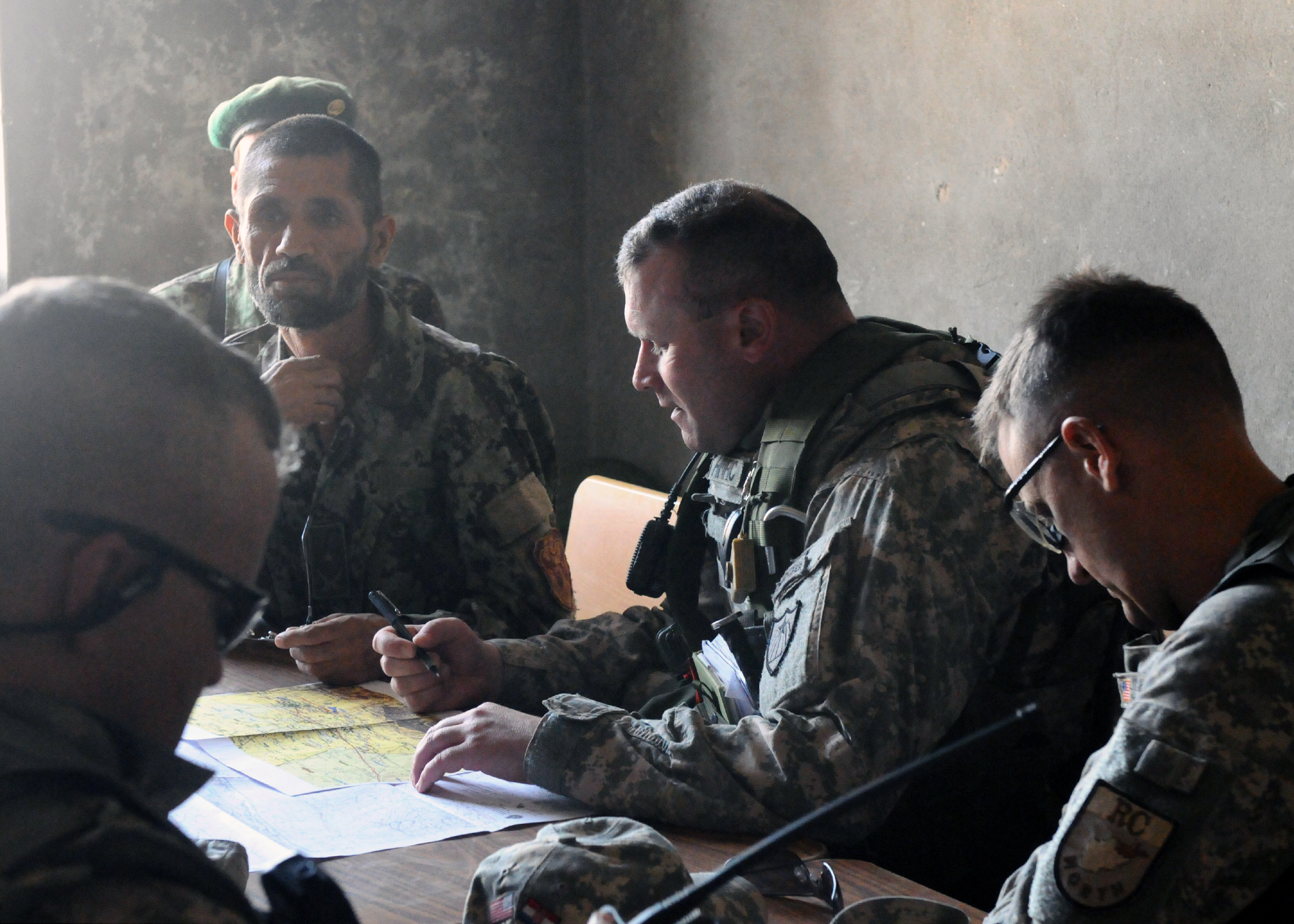 A Minnesota Guard member from Camp Mike Spann talks with local Afghans on election day in Afghanistan Sept. 18, 2010. The Minnesota Guard and the Croatian Operational Mentor and Liaison Team 47 performed vehicle and weapon systems inspections in preparation for a mission related to the elections.